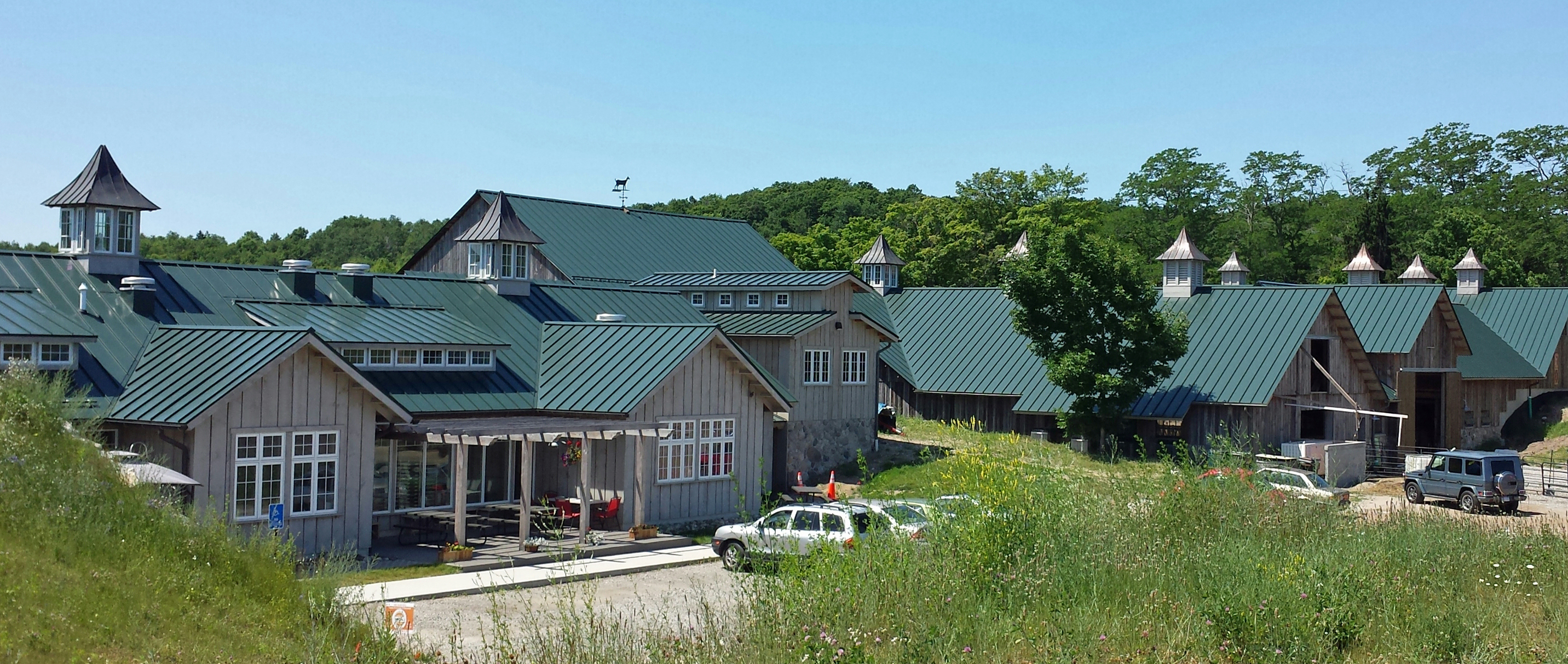 View of the farm complex at Idyll Farms in Northport, Michigan. Photo taken during a farm tour.